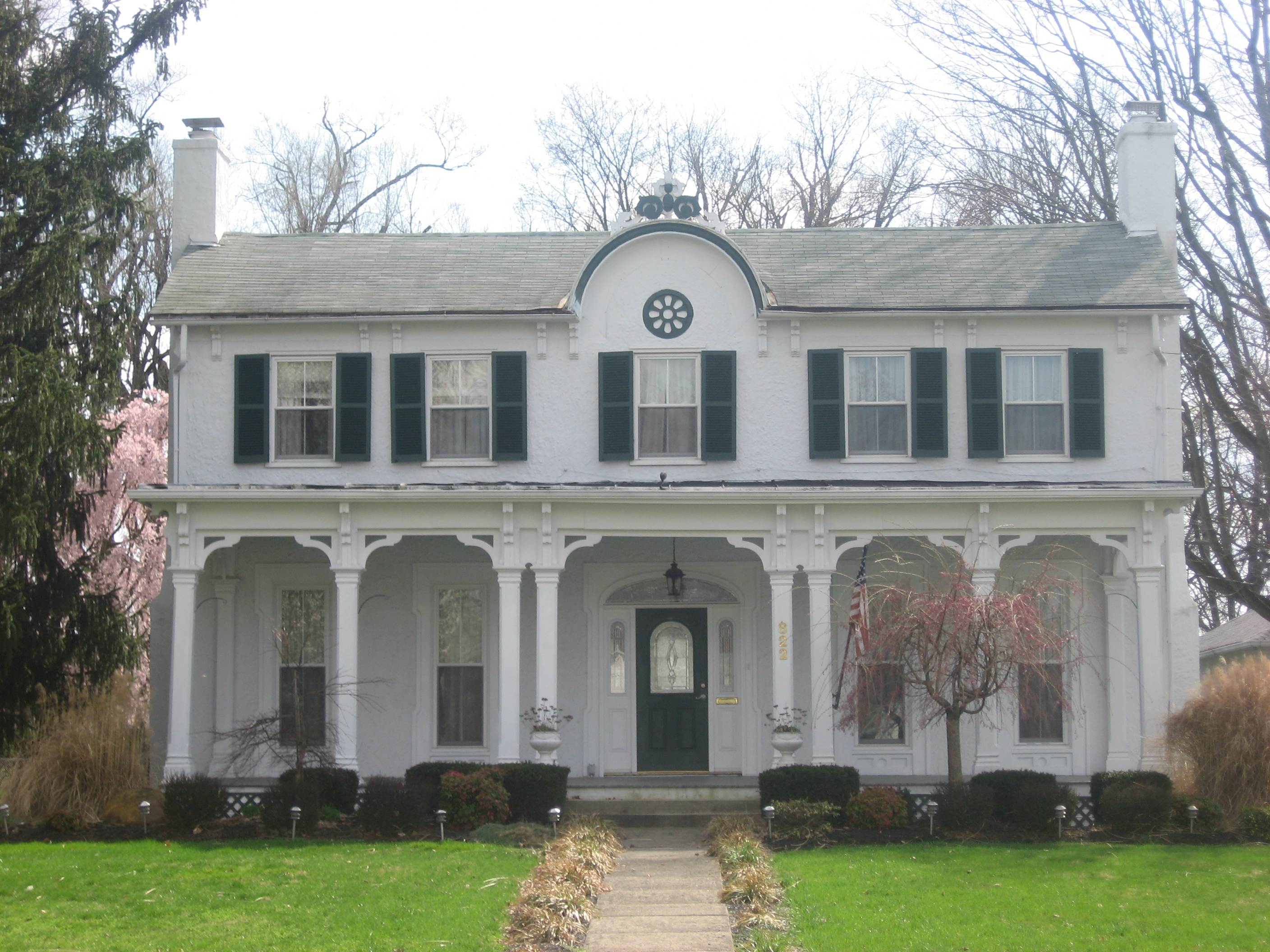 Front of the Doan House, located at 822 Fife Avenue (U.S. Route 22/State Route 3) in Wilmington, Ohio, United States. Built in 1840 in a combination of the Federal and Italianate styles, it is listed on the National Register of Historic Places.